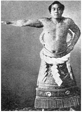 taken in late 1890s, public domain